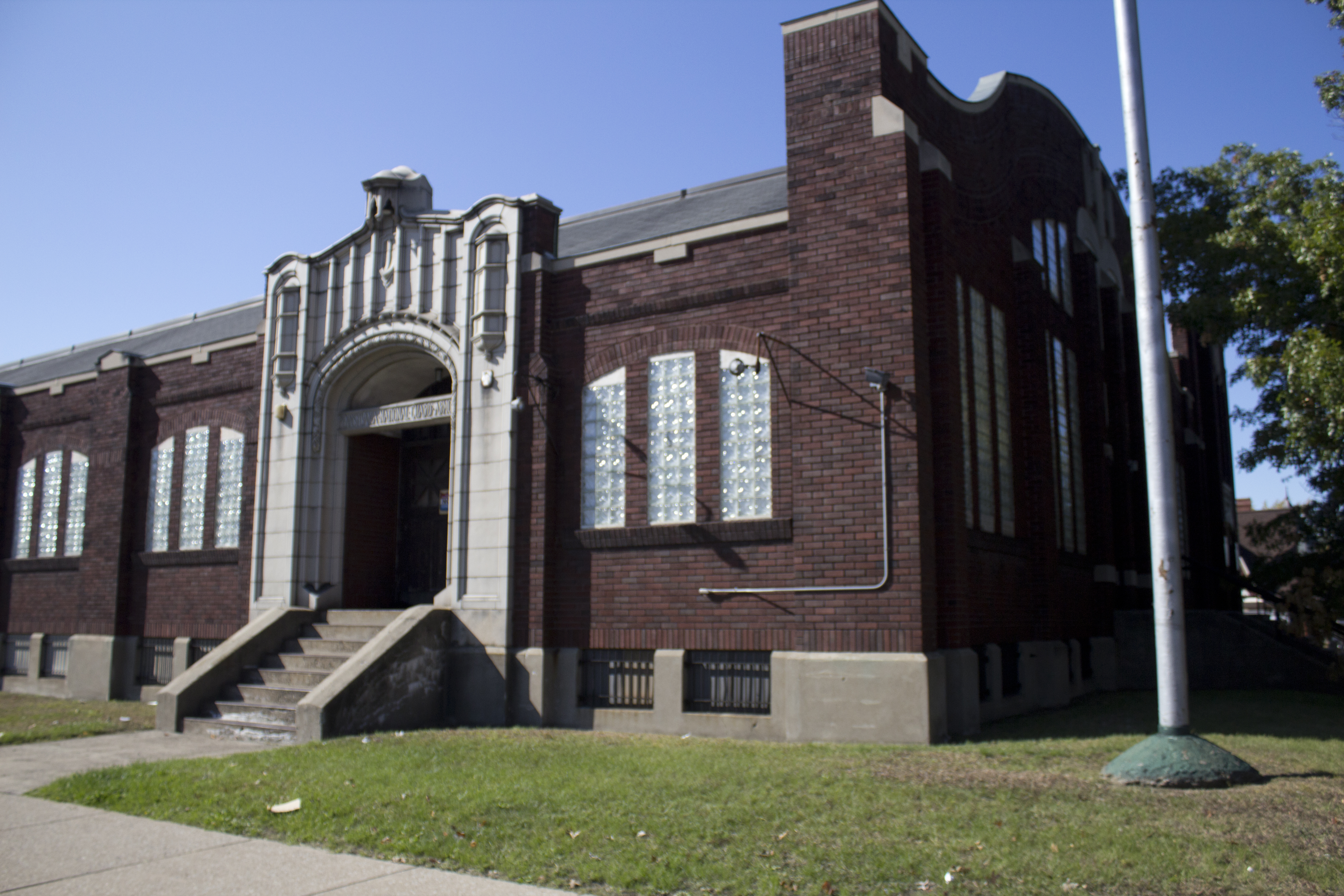 Erie Armory The view from the corner of 6th and Parade St.